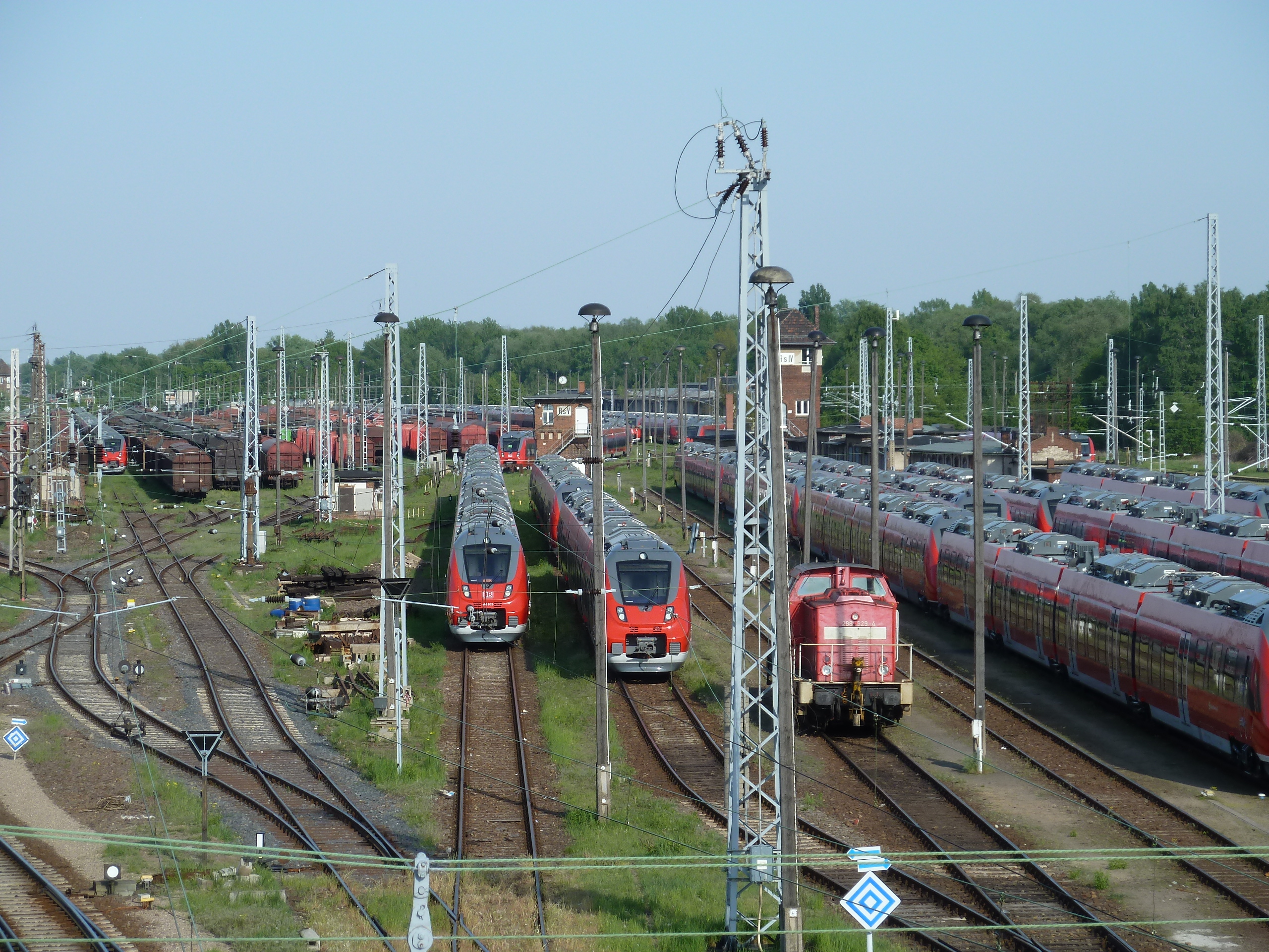 Wustermark Rangierbahnhof, view on yard